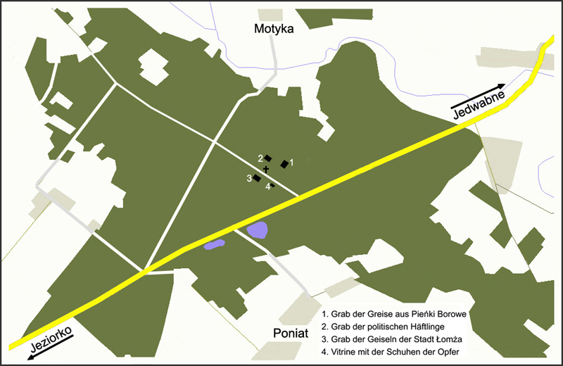 Site map of the Jeziorko war victims cemetery